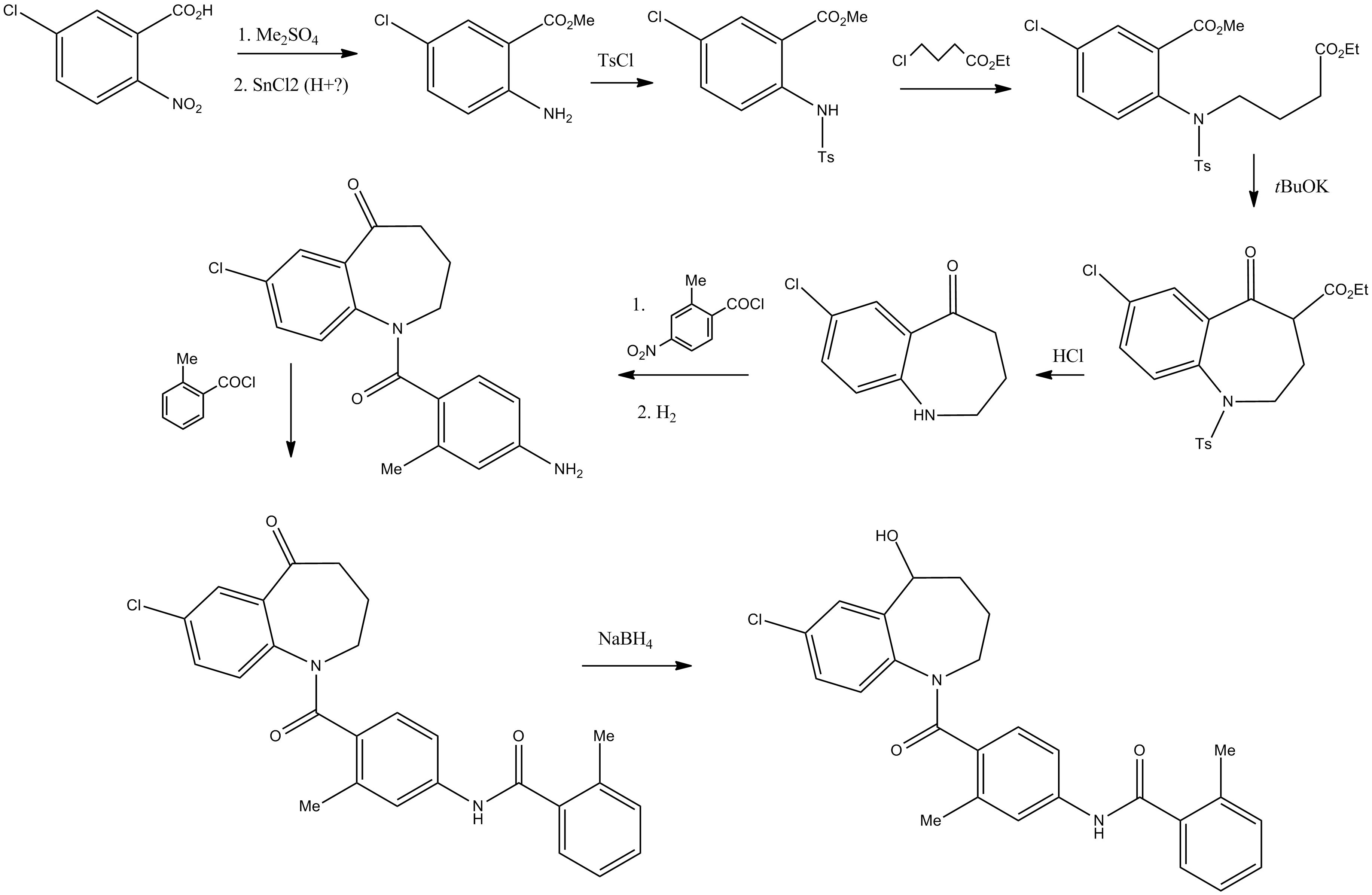 Kondo, K.; Ogawa, H.; Yamashita, H.; Miyamoto, H.; Tanaka, M.; Nakaya, K.; Kitano, K.; Yamamura, Y.; Nakamura, S.; Onogawa, T.; et al.; Bioor. Med. Chem. 1999, 7, 1743.